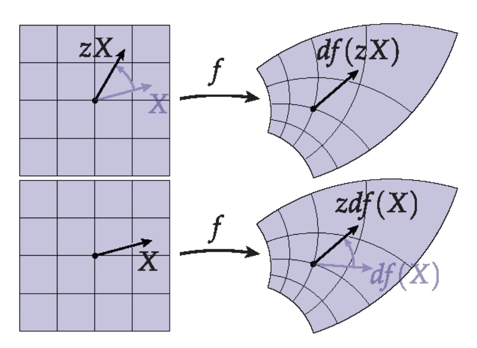 A visual depiction of a vector X on a domain being multiplied by a complex number z, then mapped by f, versus being mapped by f *then* being multiplied by z. If both of these result in the point ending up in the same place for all X and z, then f satisfies the Cauchy-Riemann condition